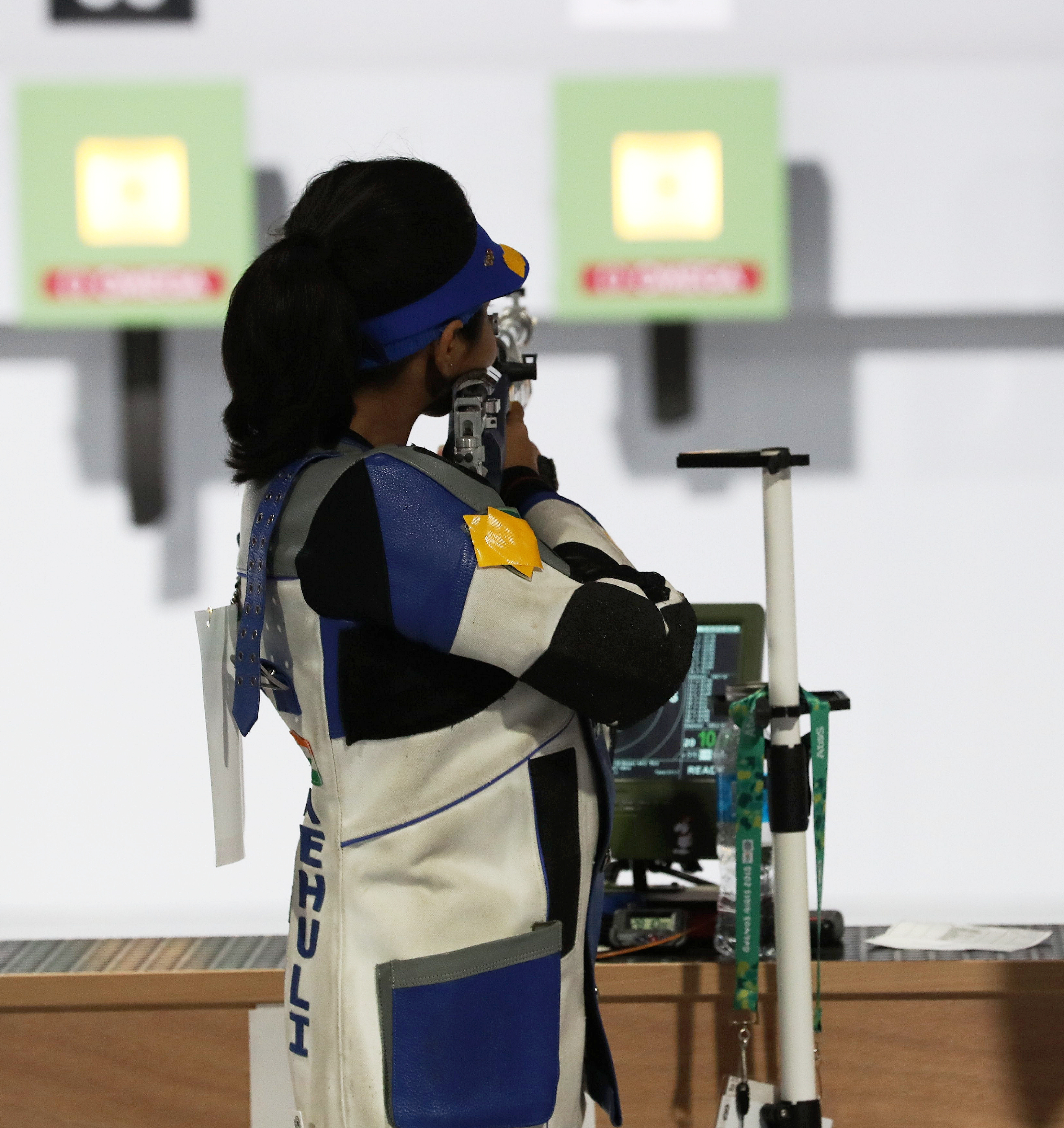 Shooting at the 2018 Summer Youth Olympics in Buenos Aires on 7 October 2018. Girls' 10 metre air rifle.